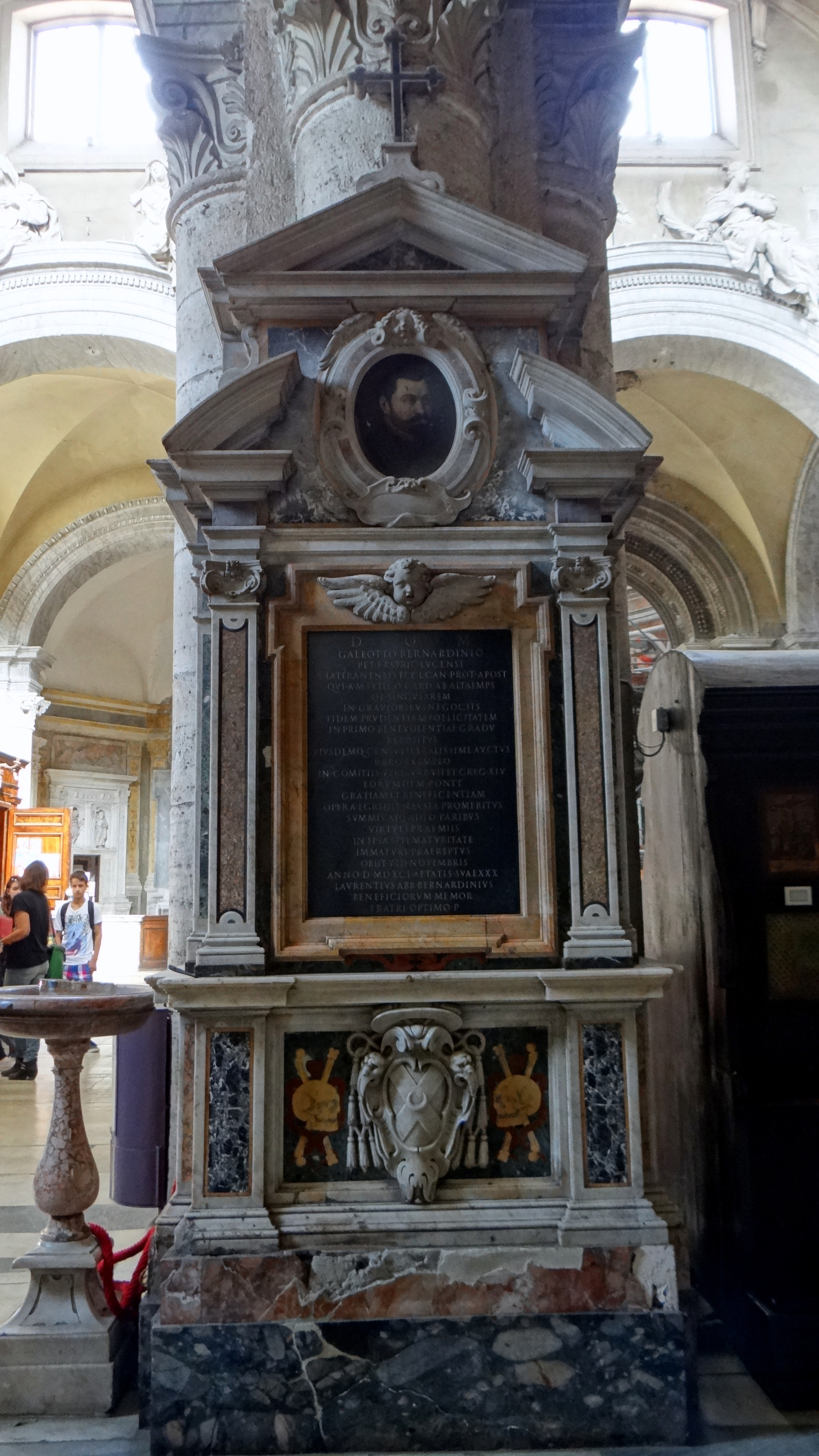 The tomb of Galeotto Bernardini, protonotary apostolic in Santa Maria del Popolo, Rome (after 1591).